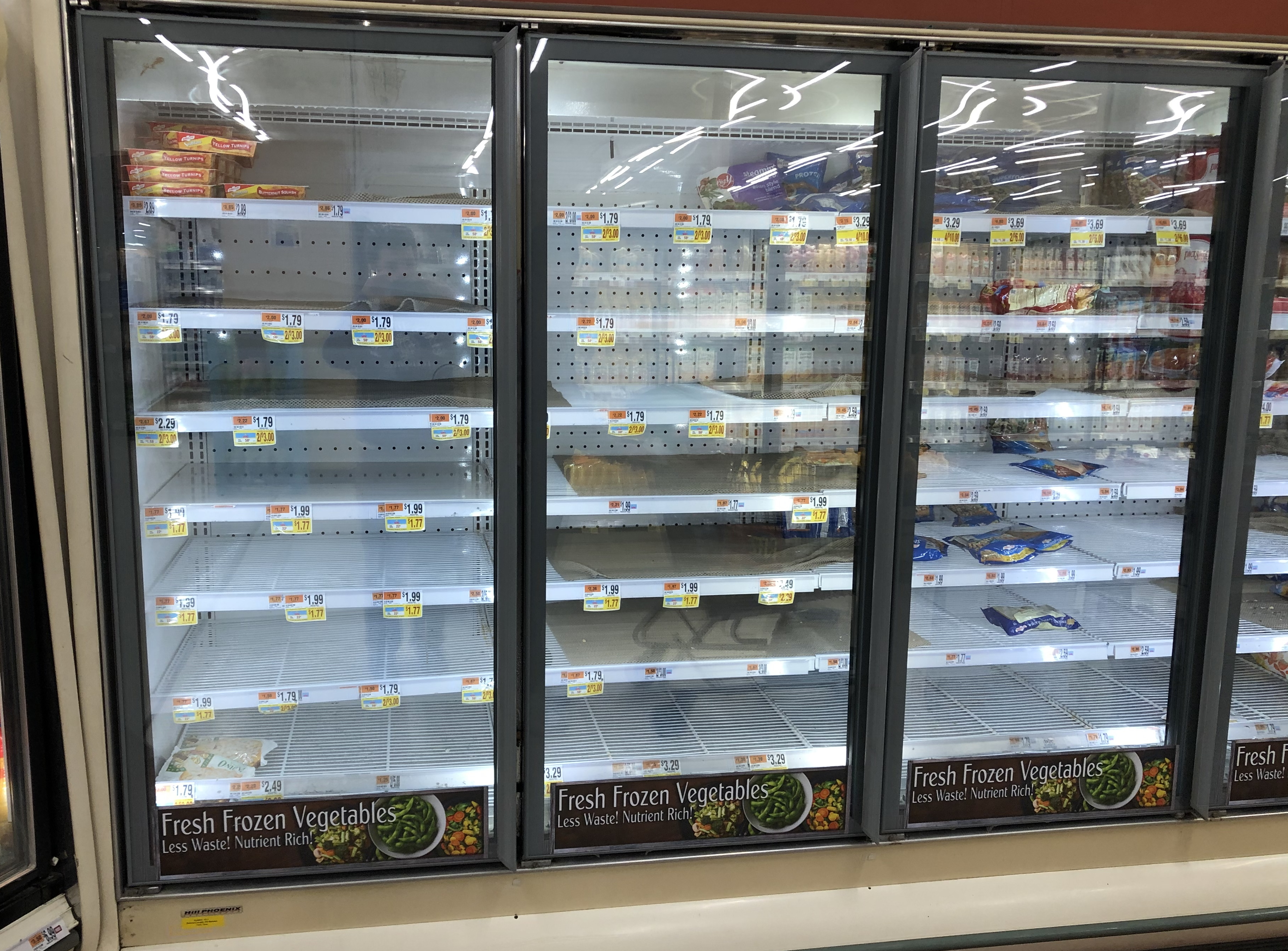 Three freezers at a Big-Y grocery store in Cheshire, Connecticut on 14 March, 2020. Although normally filled with items, the 2019-20 COVID-19 outbreak has caused shortages of the frozen goods normally stocked.